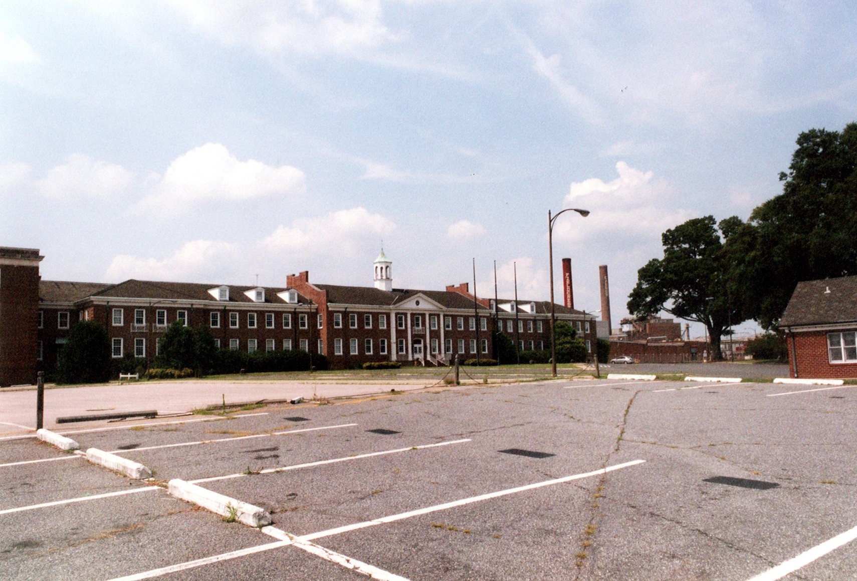 A photograph of the main offices of the Pillowtex Corporation, shortly before demolition in July 2005.